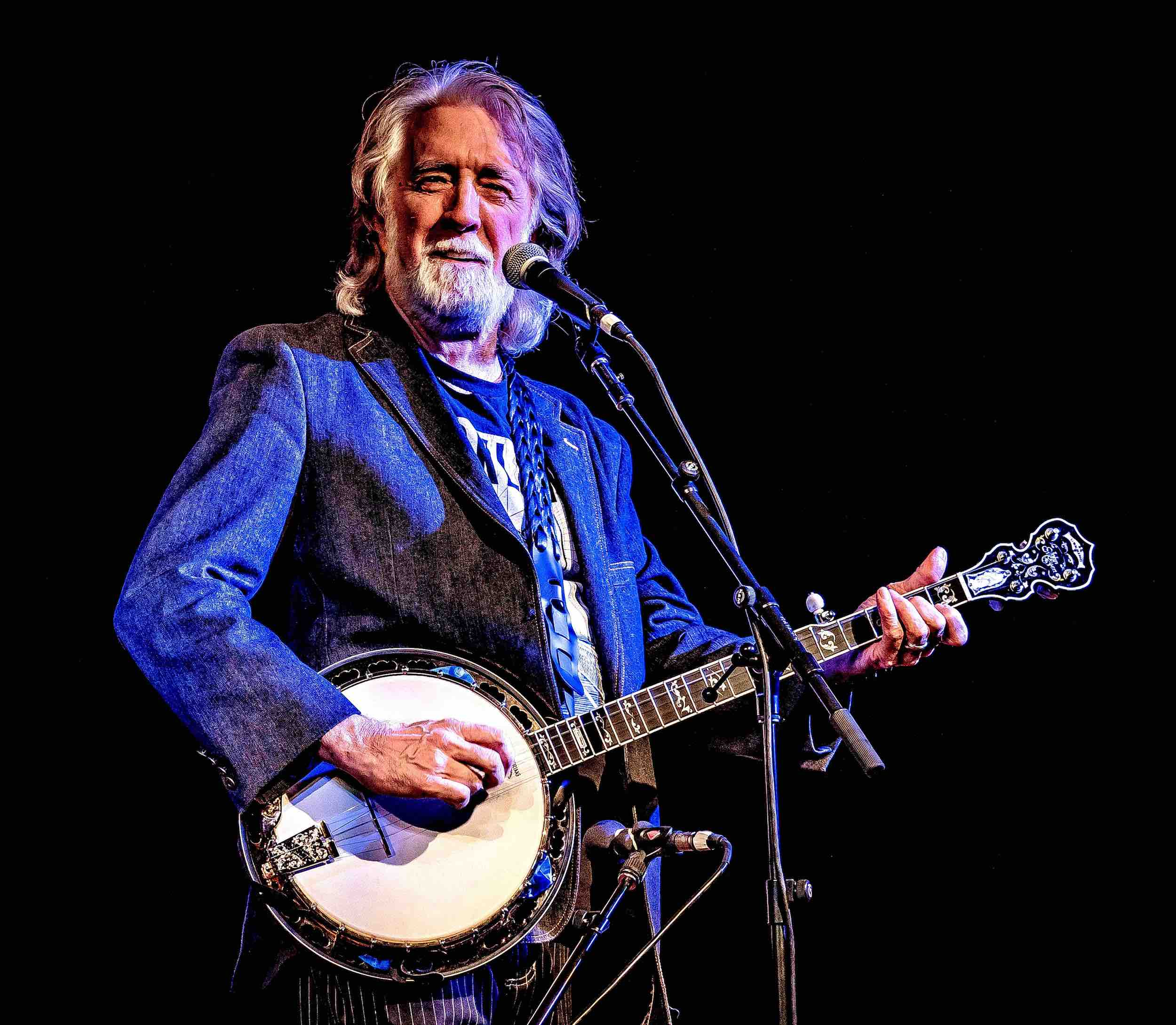 Playing my Deering Banjo John McEuen model!